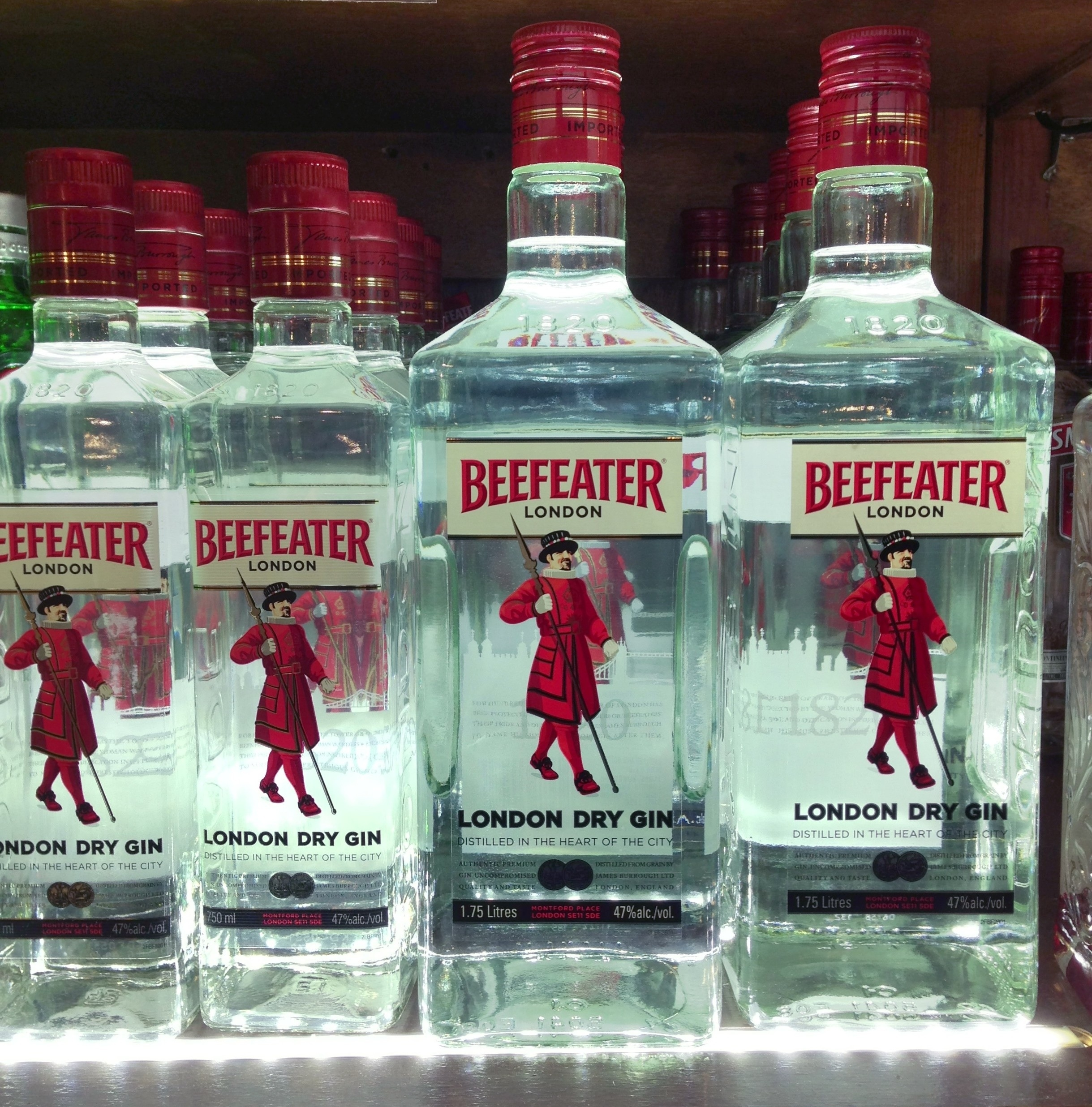 Beefeater Gin - central image dates back to at least 1908 Four Nations Approaches to Modern 'British' History: A (Dis)United Kingdom? edited by Naomi Lloyd-Jones, Margaret Scull, Palgrave Macmillan, 2018, p. 179.